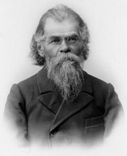 Photo of Grigory Nikolayaevich Potanin (1835-1920), Russian geographer, ethnographer, botanist, explorer of Siberia, Central Asia and China